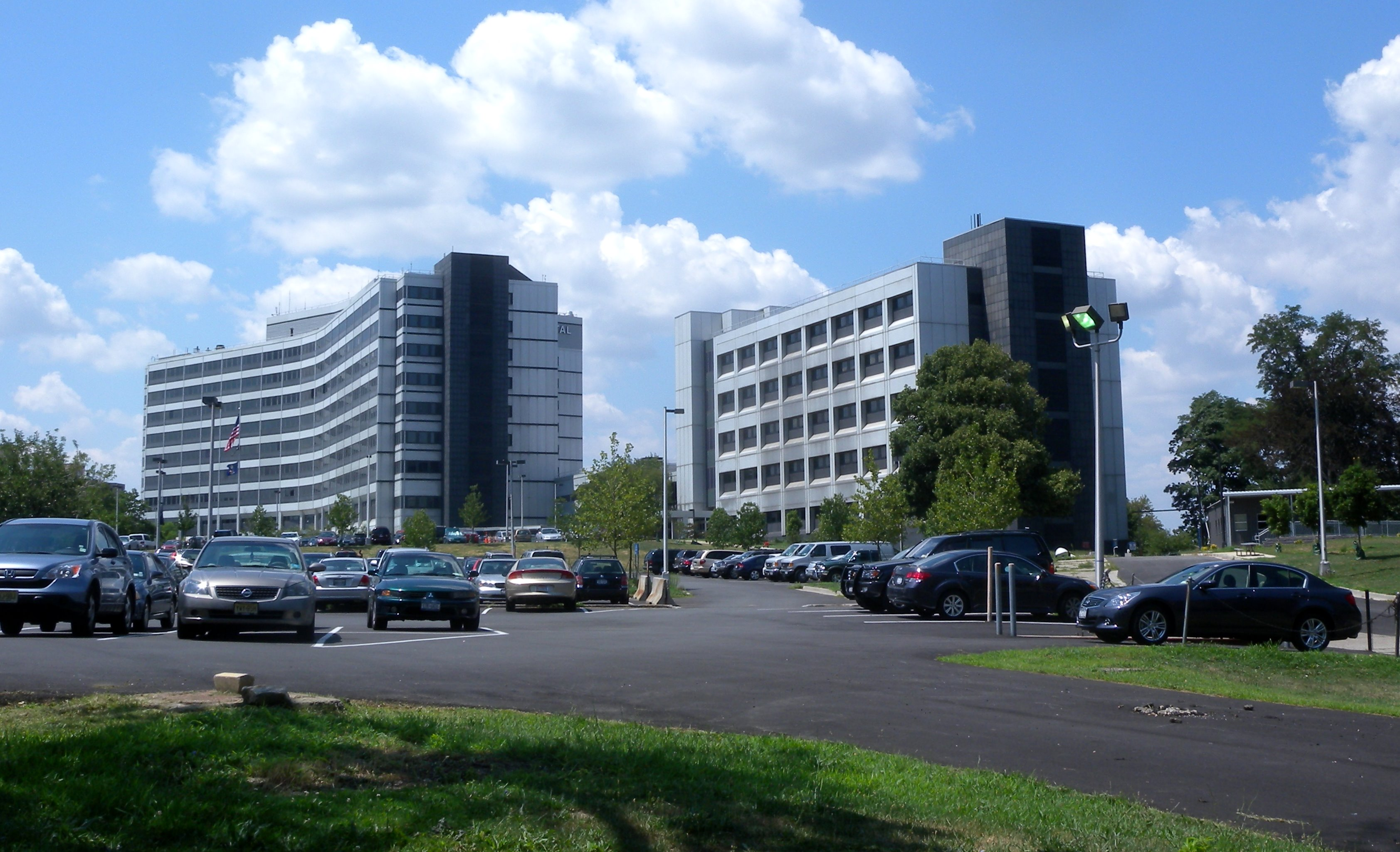 Looking southwest at James J Peters Verteran Hospital, east of Sedgwick Avenue, south of Kingsbridge Road, on a sunny midday.